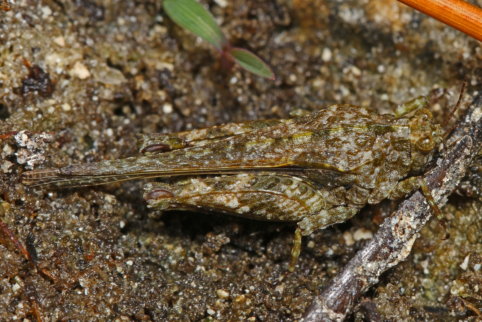 Mexican Pygmy Grasshopper - Paratettix mexicanus, Okaloacoochee Slough State Forest, Felda, Florida.